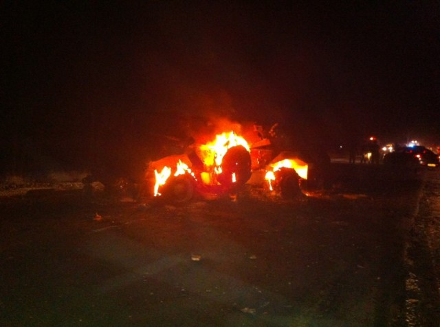 An APC used by terrorists during a 2012 attack on Egypt and Israel. 16 Egyptian soldiers were killed. The terrorists then attempted to infiltrate Israel with the APC, and succeeded, but were quickly killed by the Israeli Air Force before they could kill anyone else. This is an image of the burning APC. Other information The IDF blog has a link on the bottom that says "Some Rights Reserved." Clicking it takes you to the Creative Commons Attribution-Share Alike legal code, explaining how it is allowed to be used.